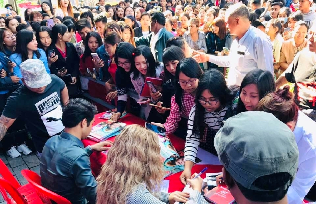 Nay Chi Oo and actor Nay Min at the signing event of "Yan Thu" movie